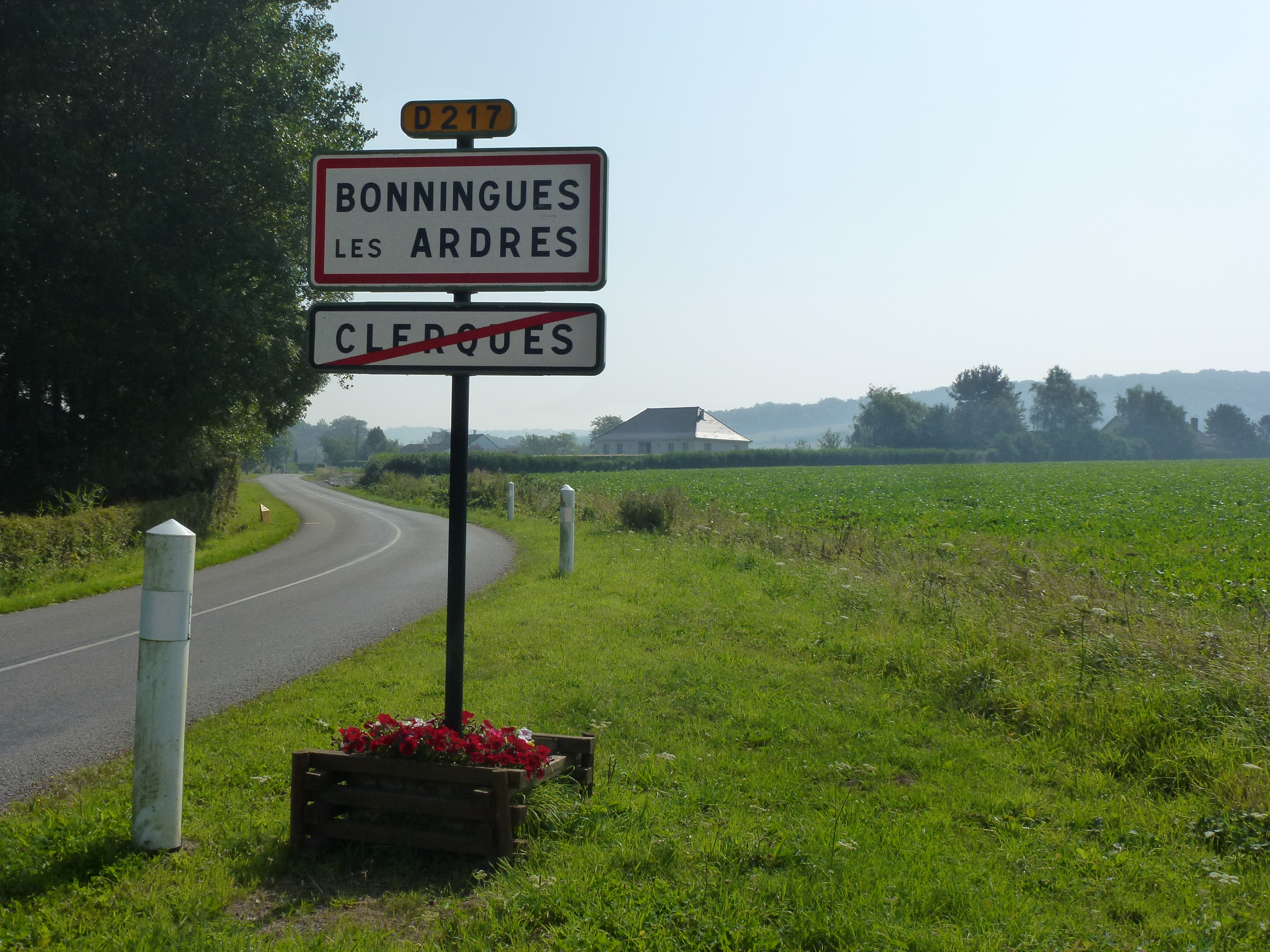 Bonningues-lès-Ardres ~ Clerques (Pas-de-Calais) city limit sign